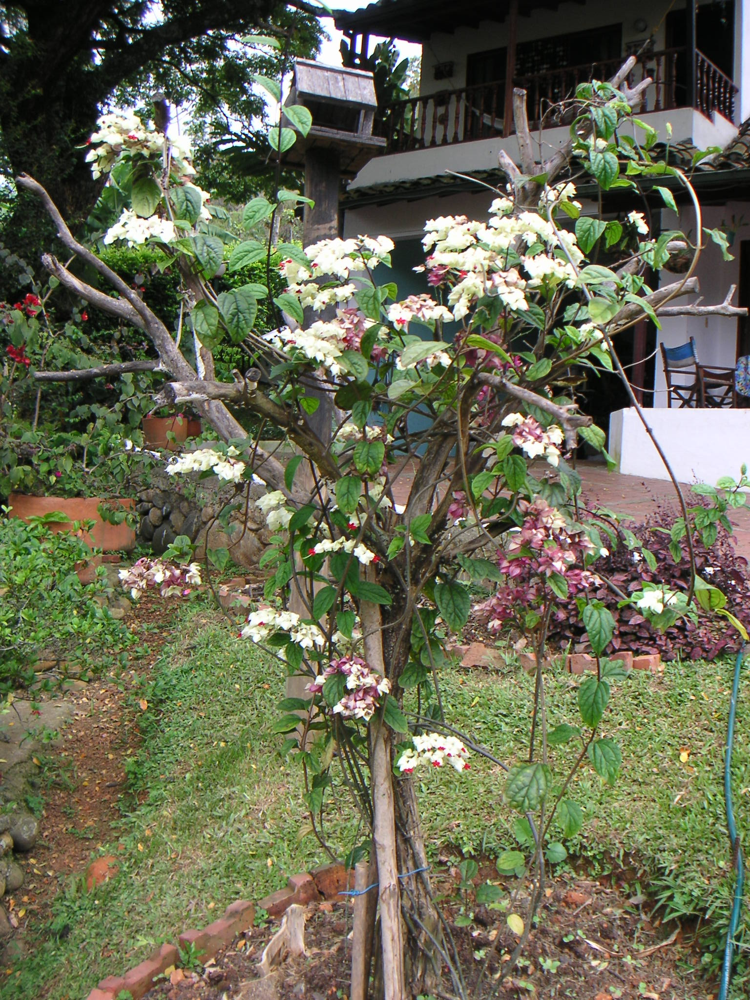 Clerodendrum thomsoniae, Lamiaceae, Cali / Kolumbien